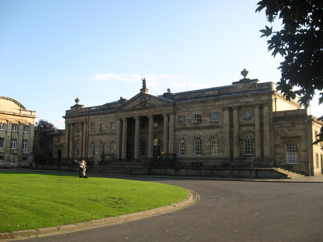 York Crown Court